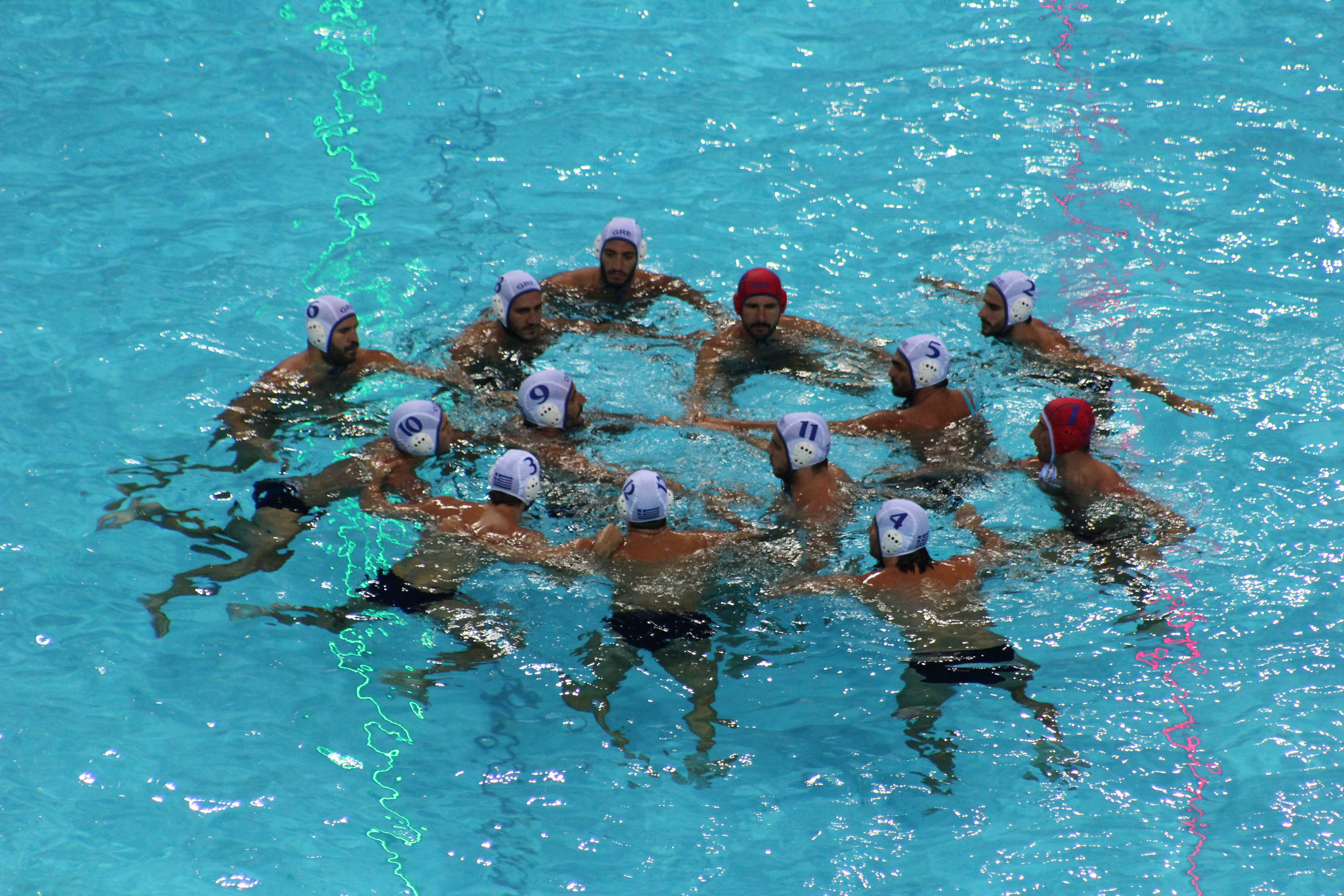 London Olympics 2012. Water polo.